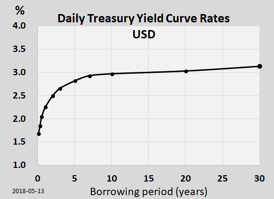 An excel-produced spreadsheet of time series from